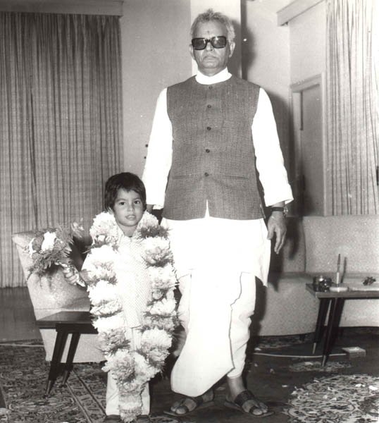 Pt Bhagwat Dayal Sharma